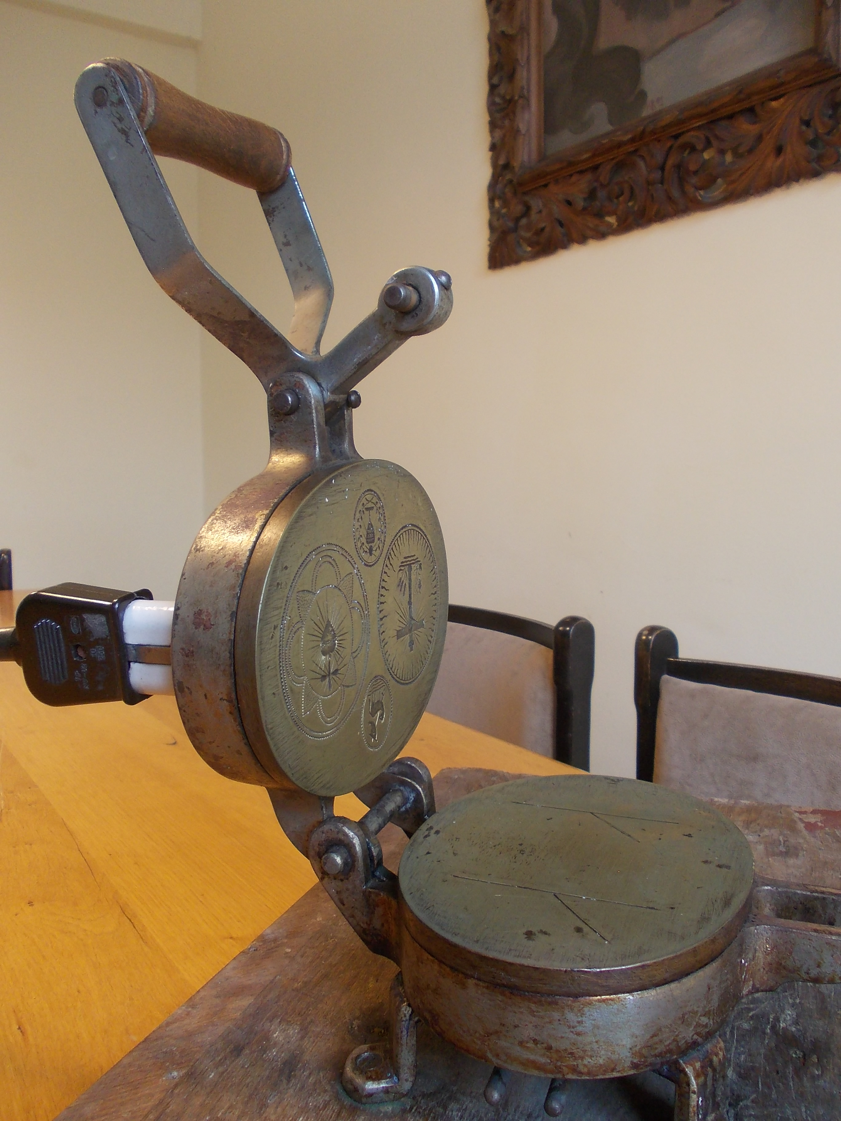 Host press